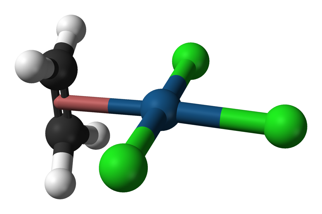 Ball-and-stick model of the [(η2-C2H4)PtCl3]−] anion, as found in the crystal structure of Zeise's salt. X-ray crystallographic data from Acta Cryst. (1971). B27, 366-372. Model constructed in CrystalMaker 8.1. Image generated in Accelrys DS Visualizer.